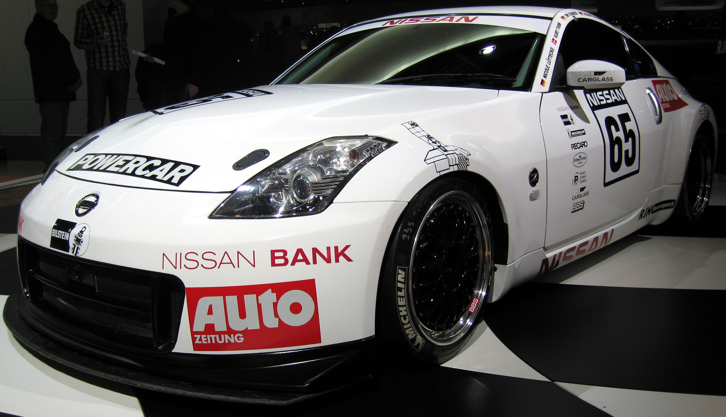 Nissan 350Z GT4 this car was created by AUTO ZEITUNG, Powercar and Nissan Germany and was participant of the 24 Hours Nürburgring